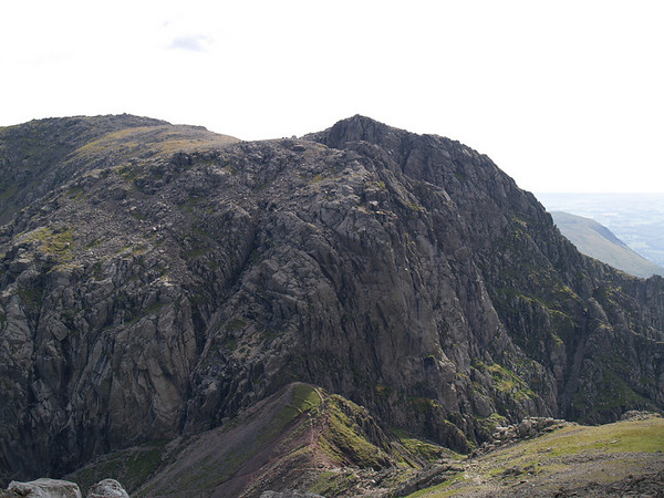 Sca Fell as seen from [Scafell Pike] (English Lake District) Mickledore, the connecting ridge is in the foreground